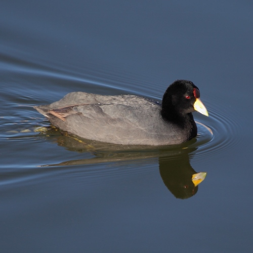 Slate-colored coot at Salar de Atacama, Chile